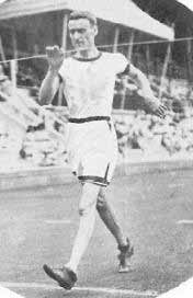 racewalking